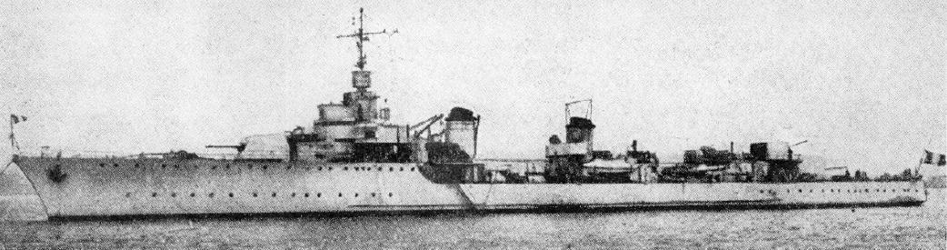 The Hardi, ONI203 booklet for identification of ships of the French Navy, published by the Division of Naval Inteligence of the Navy Department of the United States (9 November 1942).